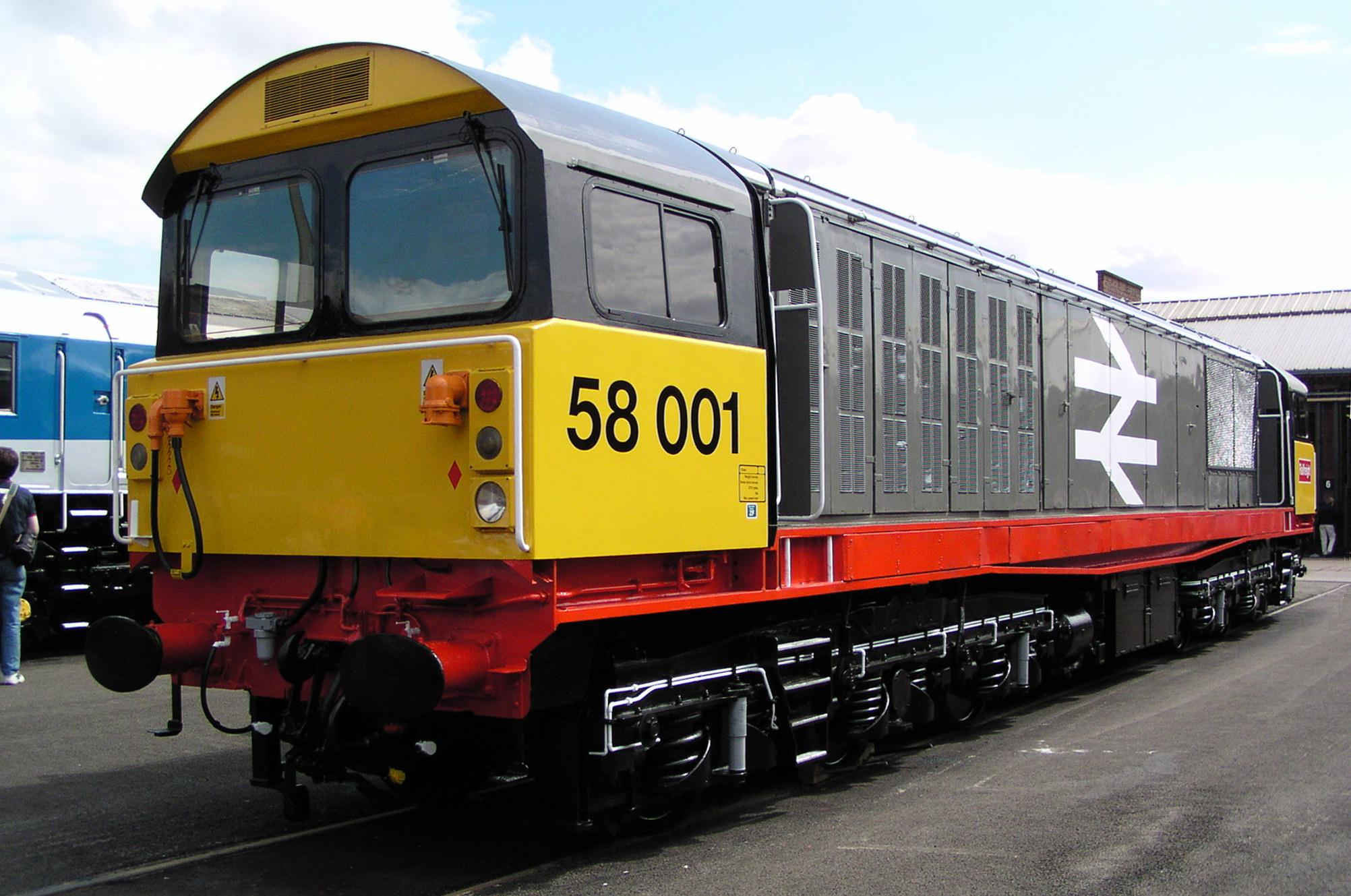 British Rail Class 58, no. 58001, on display at Doncaster Works open day on 27th July 2003. This locomotive was repainted into its original Red-stripe Railfreight livery for the event. Image by Phil Scott (Our Phellap)